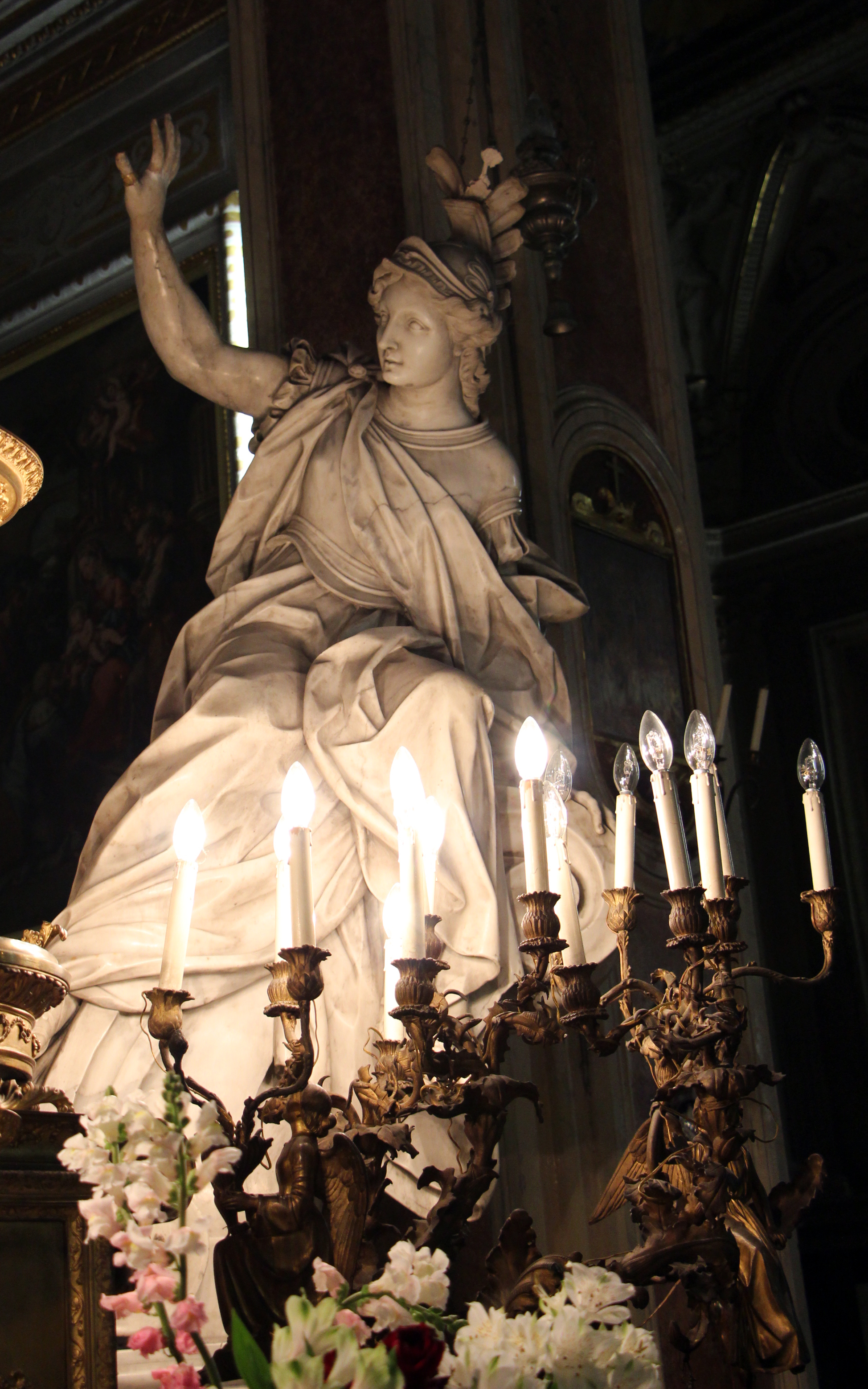 Mausoleum of Saint Catherine of Genoa